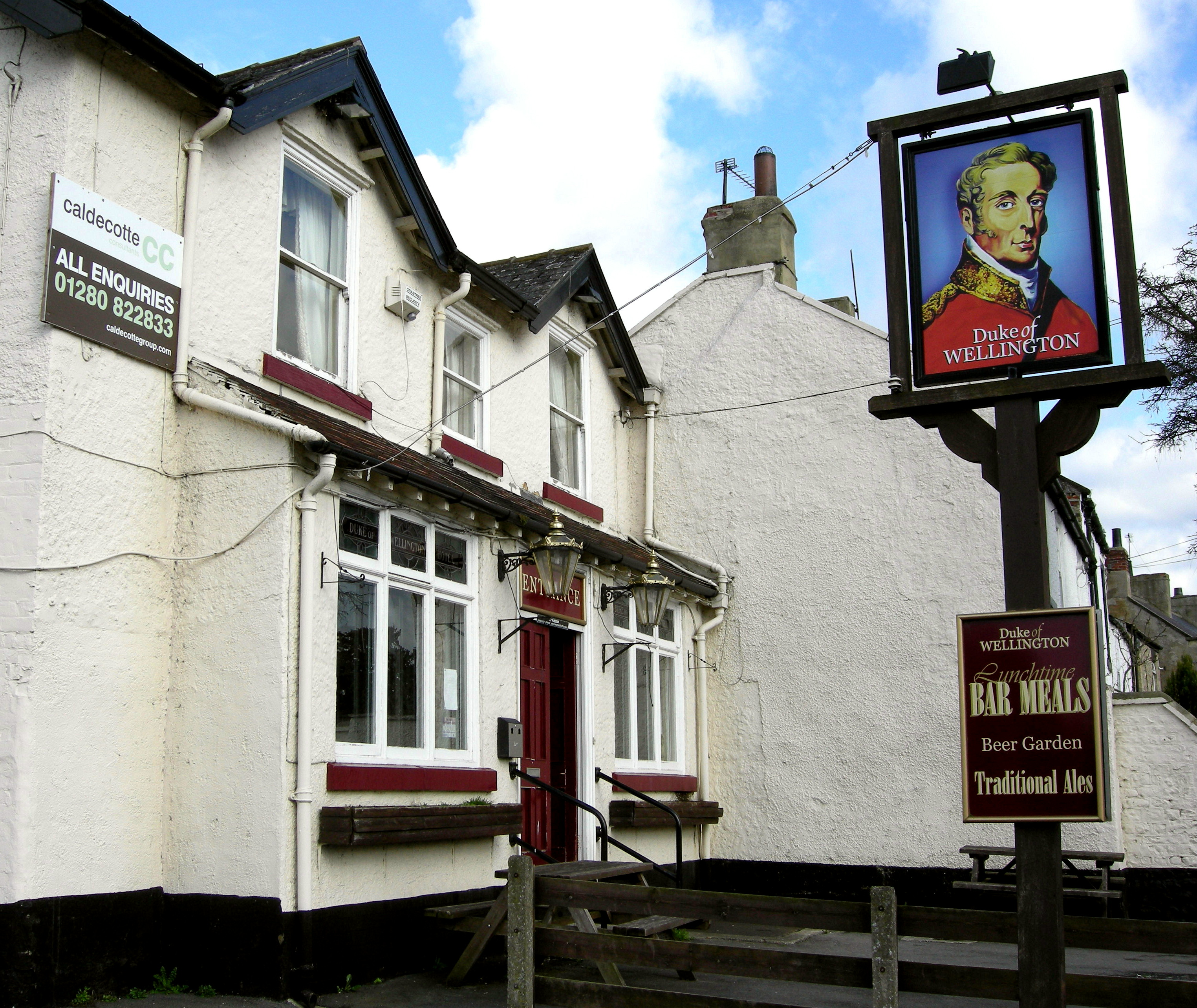 Duke of Wellington pub, High Coniscliffe, County Durham, England. This is the pub which displayed the portrait of Napoleon instead of Wellington on its inn sign for 13 years. The landlady says that the Napoleon portrait no longer exists, as the present Wellington portrait was painted on top of it.